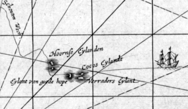 Close-up view of a 1619 map by Willem Schouten showing Schouten and Le Maire’s route across the Pacific Ocean from Cape Horn on the Eendracht in 1616. From Schouten’s Diarium vel descriptio laboriosissimi, & molestissimi itineris . . . (Amsterdam, 1619). It shows the island of Futuna, Alofi (named Hoornſe Eylanden), Niuafo'ou (Eylant van goede hope), Tafahi (Cocos Eylant) and Niuatoputapu (Verraders Eylant).